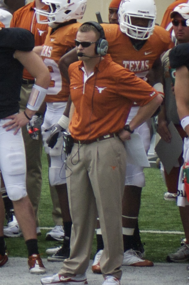 Bryan Harsin on the sidelines during the Texas Spring Game.